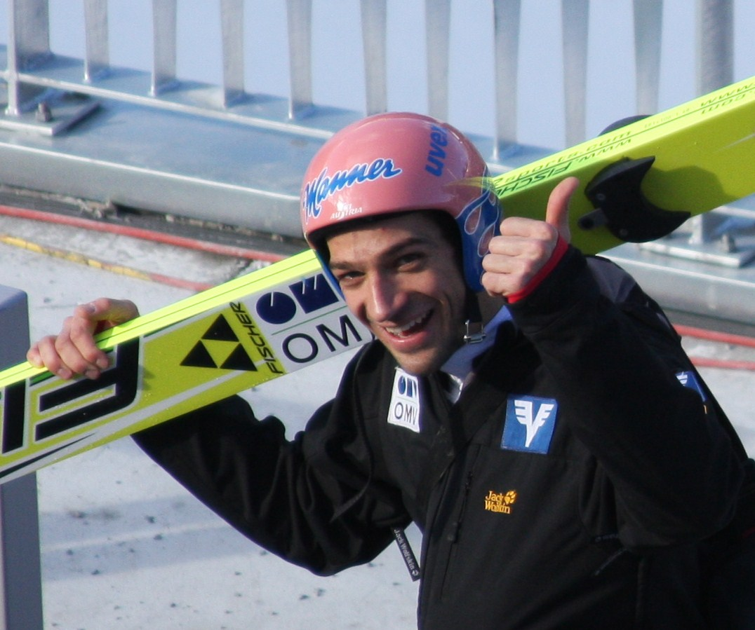 Andreas Kofler (AUT) after WC in Holmenkollen, Oslo, 14 marsh 2010. In the tournament, he noted official track record with 139,5 m.